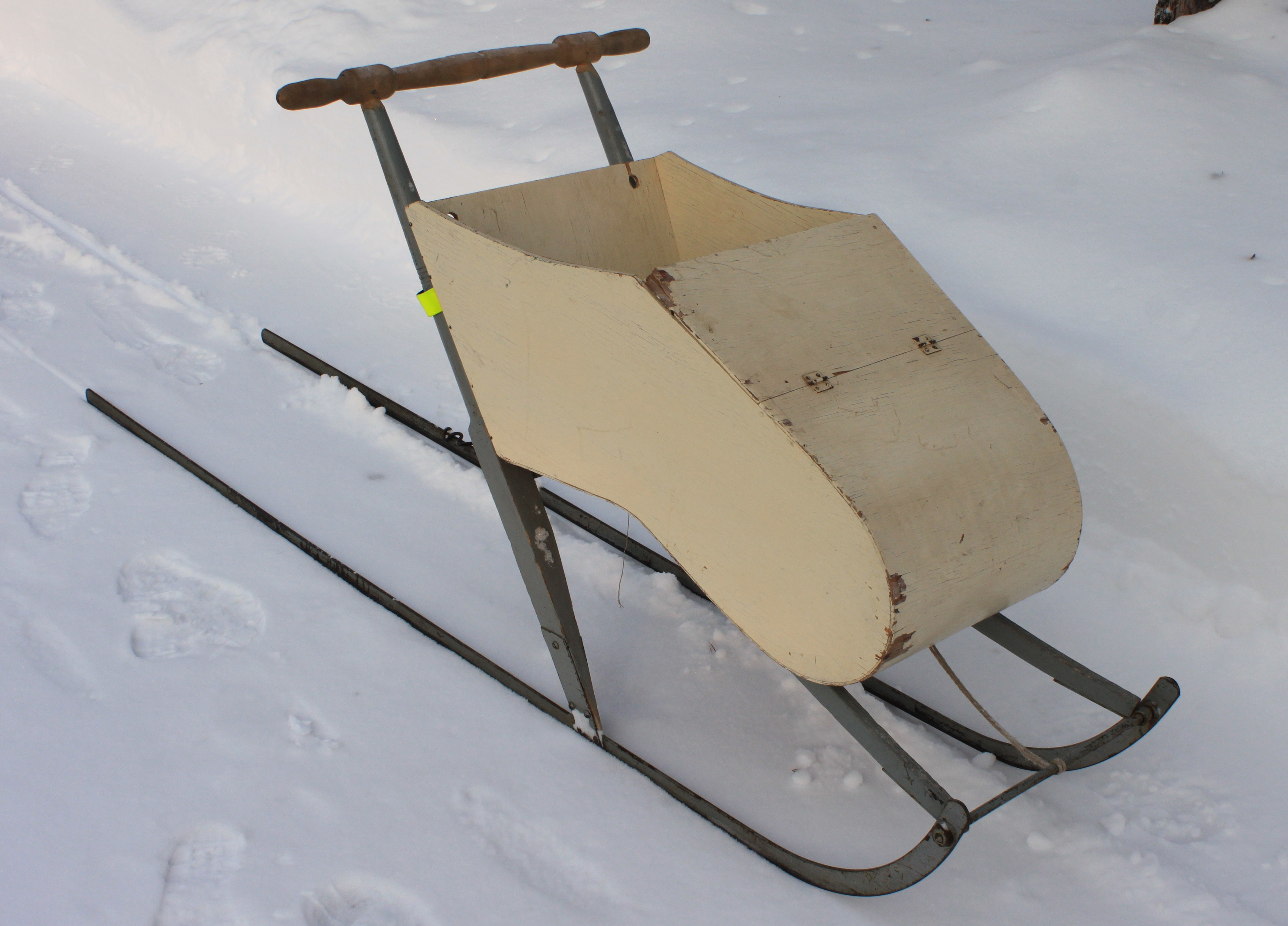 Box for transporting small children (traditional model), mounted on a kicksled